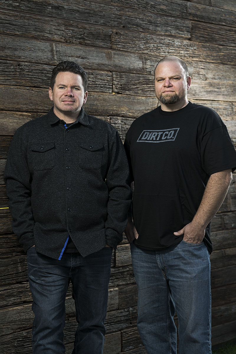 The Martelli Brothers - Matt (left) and Joshua (right)